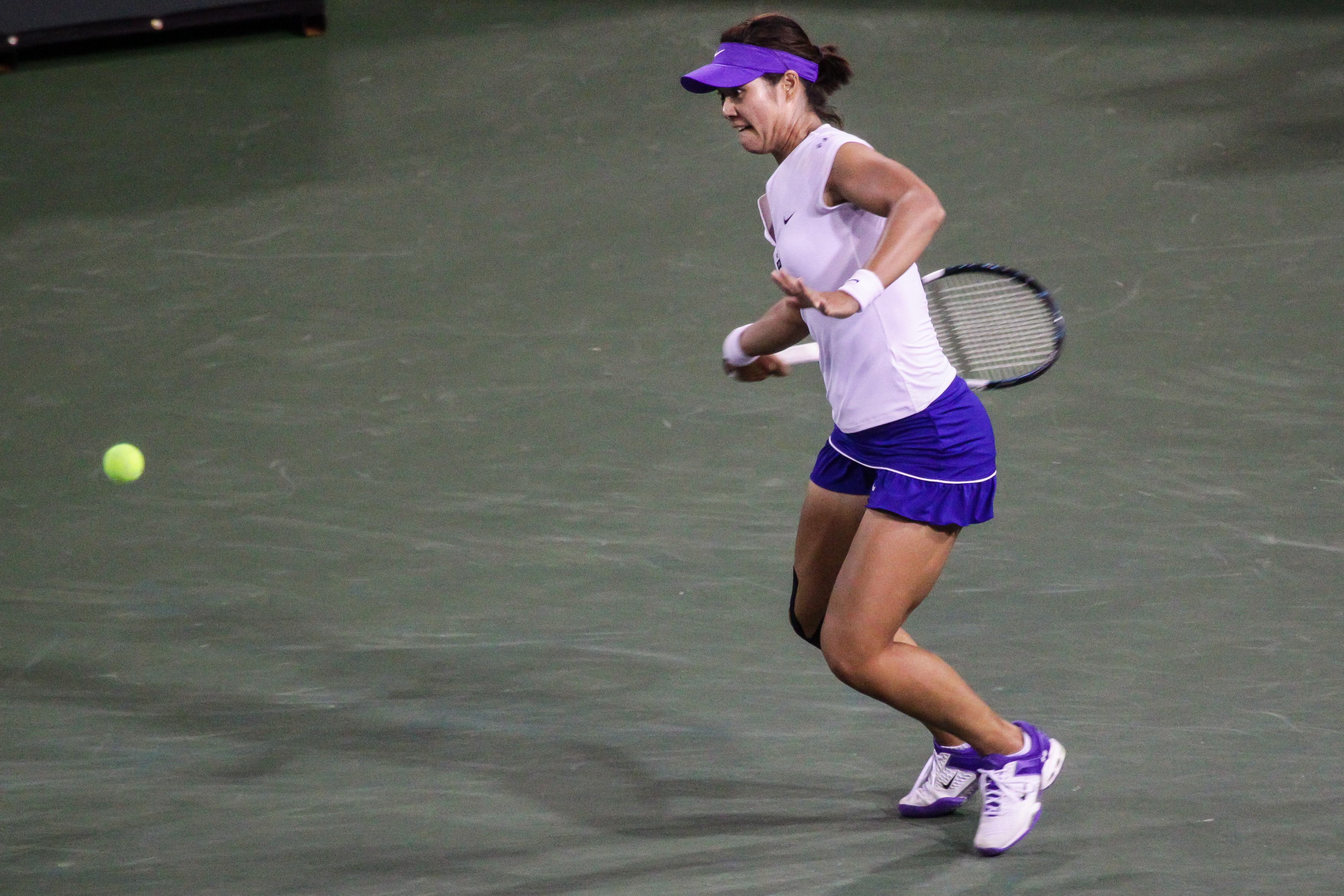 Li hitting a forehand.